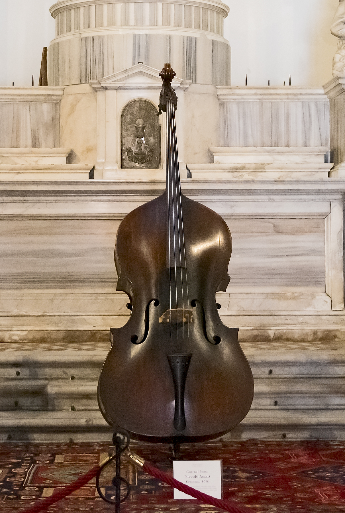 Church san Maurizio today Museo della musica in Venice. Double bass made by Niccolò Amati in Cremona in 1670.